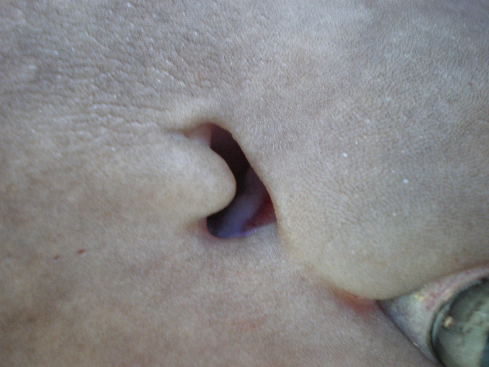 Squalus bucephalus. Detail of spiracle. Locality: Off Récif Toombo, off Nouméa, New Caledonia. Date 2008-07-23.Specimen identified by Bernard Séret (IRD-MNHN).